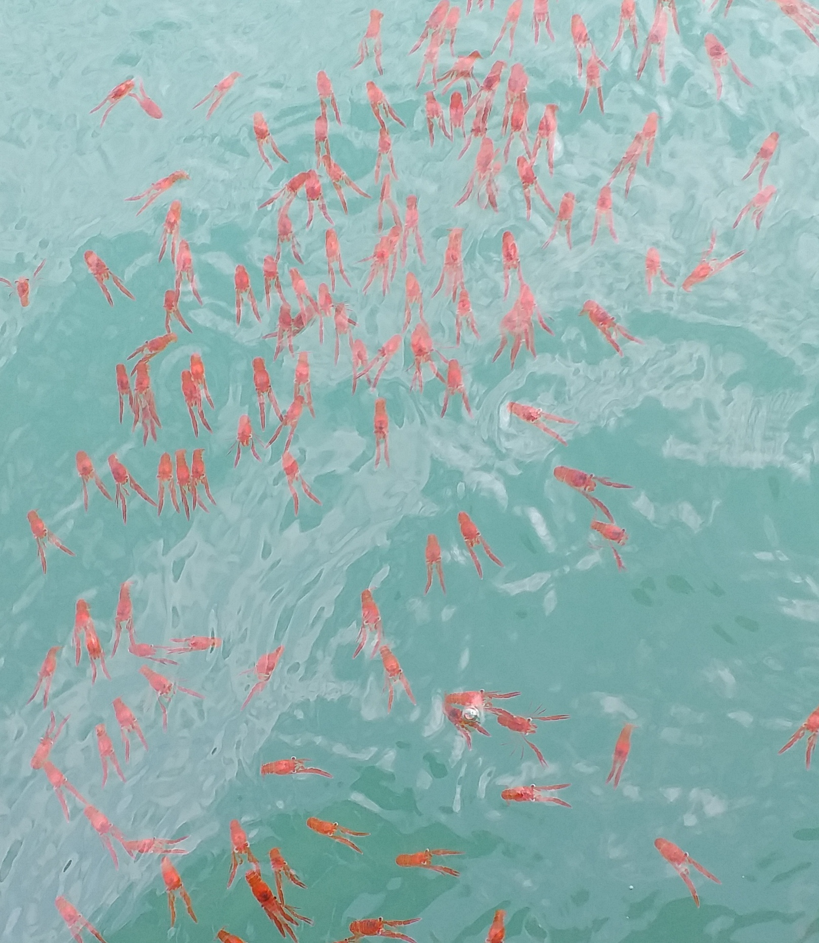 A small section of very large shoals or swarms of Munida gregaria in coastal waters at Diamond Harbour, Lyttleton New Zealand. The total number of individuals visible probably exceeded one million.